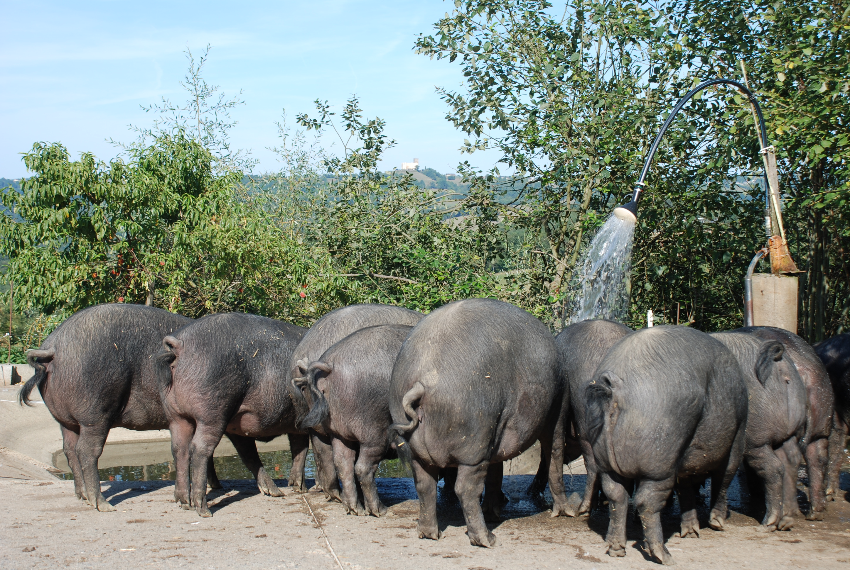 Gilts from Porc gascon breed photographied in Arberet farm, (Noir de Bigorre pig butcherry), Bonnemazon village, in the Baronnies (Hautes-Pyrénées) near Escaladieu Abbey and Mauvezin Castle (in the landscape of the photo)